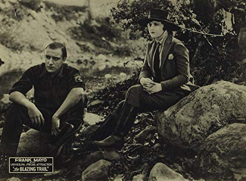 Still shot from the 1921 film, "The Blazing Trail", showing Frank Mayo and Lillian Rich